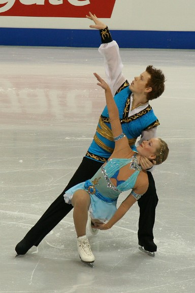 Kendra Moyle and Andy Seitz at the 2006 Skate Canada International.